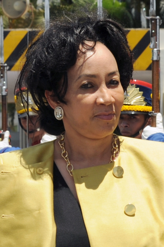 Lindiwe Sisulu, minister of defence and military veterans of South Africa, during a visit to Brazil